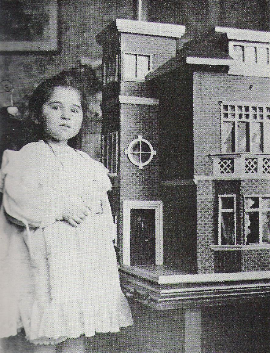 Photo of Winifred Warne and the doll house from Two Bad Mice